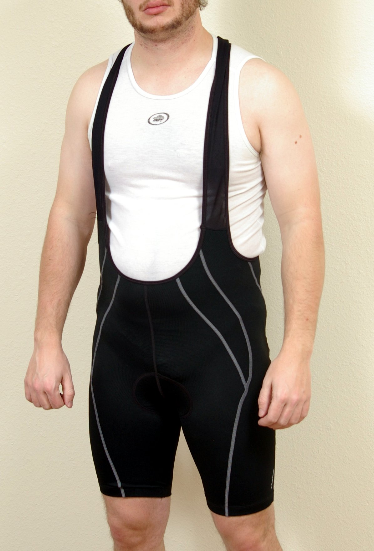 An example of bibshorts and an undershirt. Normally a jersey would be worn on top.